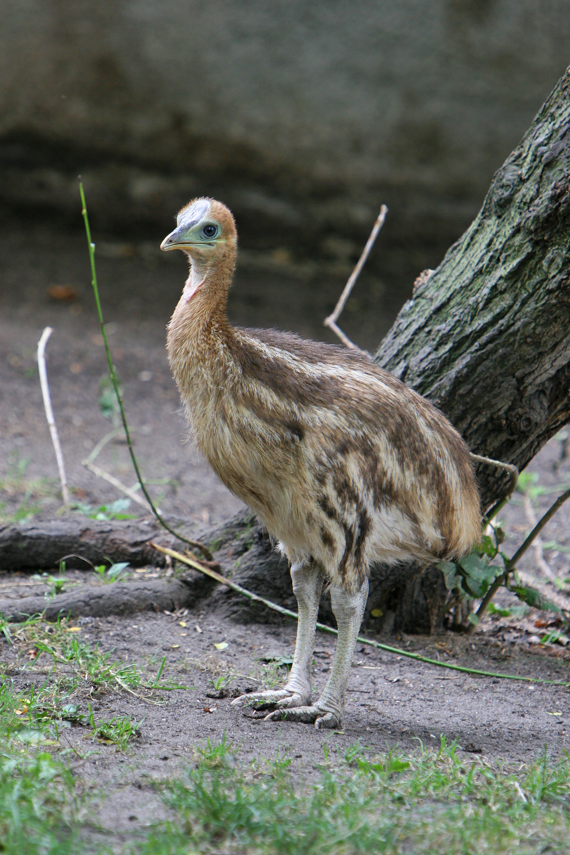 Southern Cassowary chick (also known as Double-wattled Cassowary and Australian Cassowary) at Artis Zoo, Amsterdam, Netherlands.